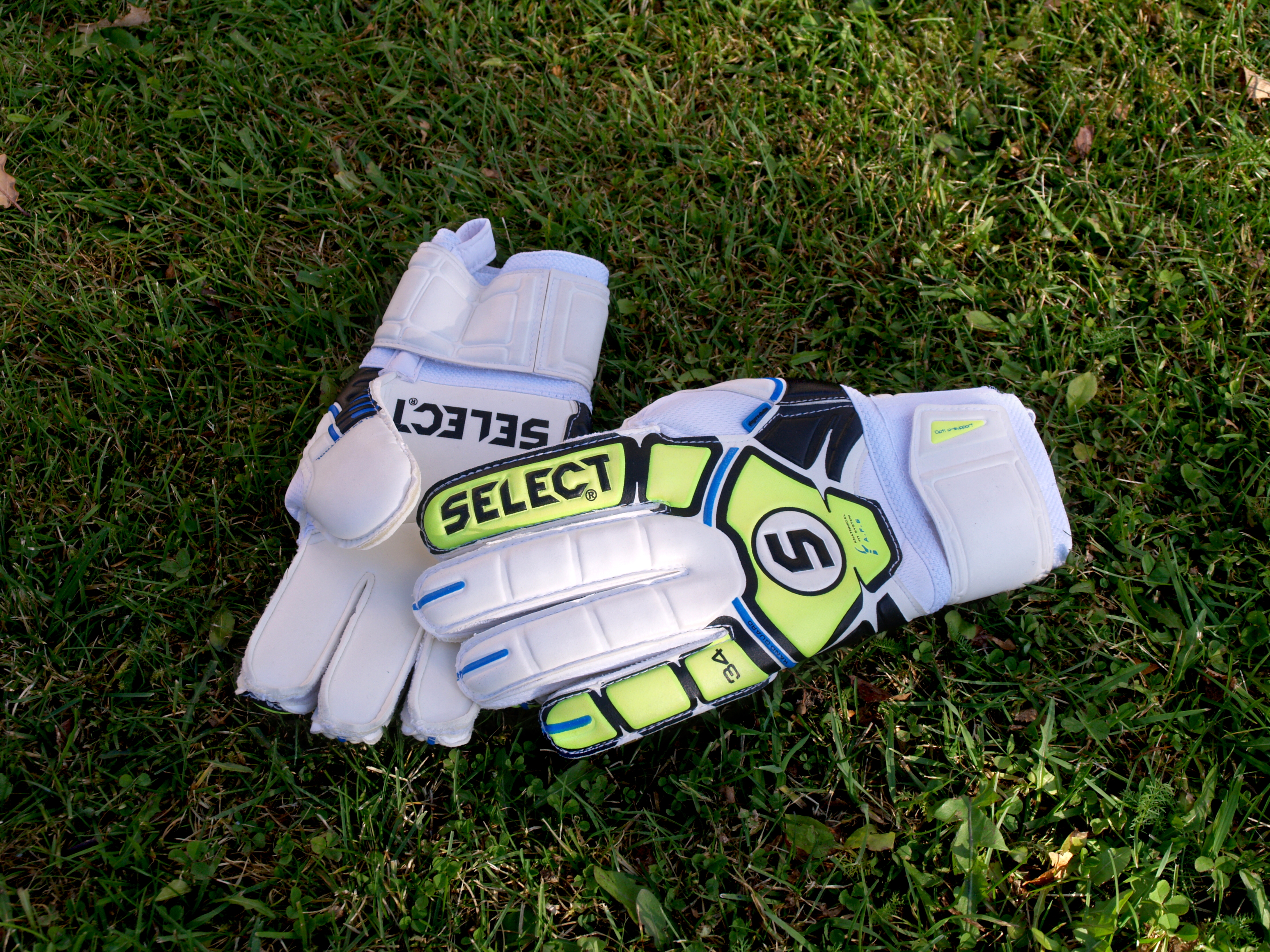 Football goalkeeper gloves Select 34.